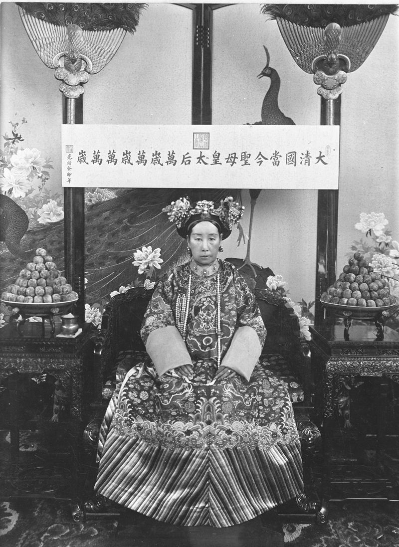 The Qing Dynasty Empress Dowager Cixi of China Photographed in 1902